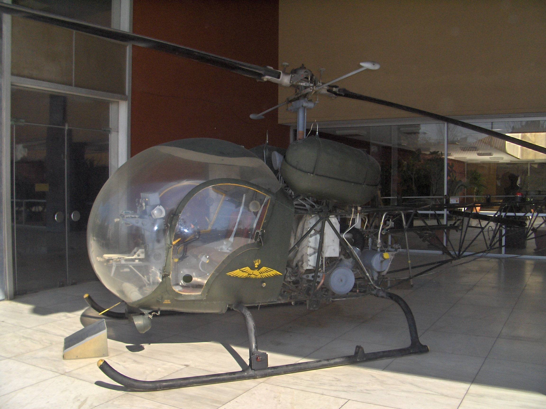 Exhibit at the War Museum in Athens.